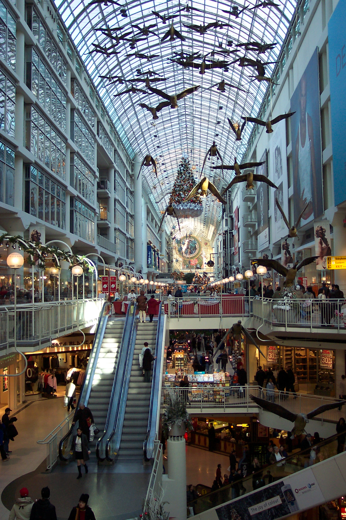 Toronto Eaton Centre on Boxing Day